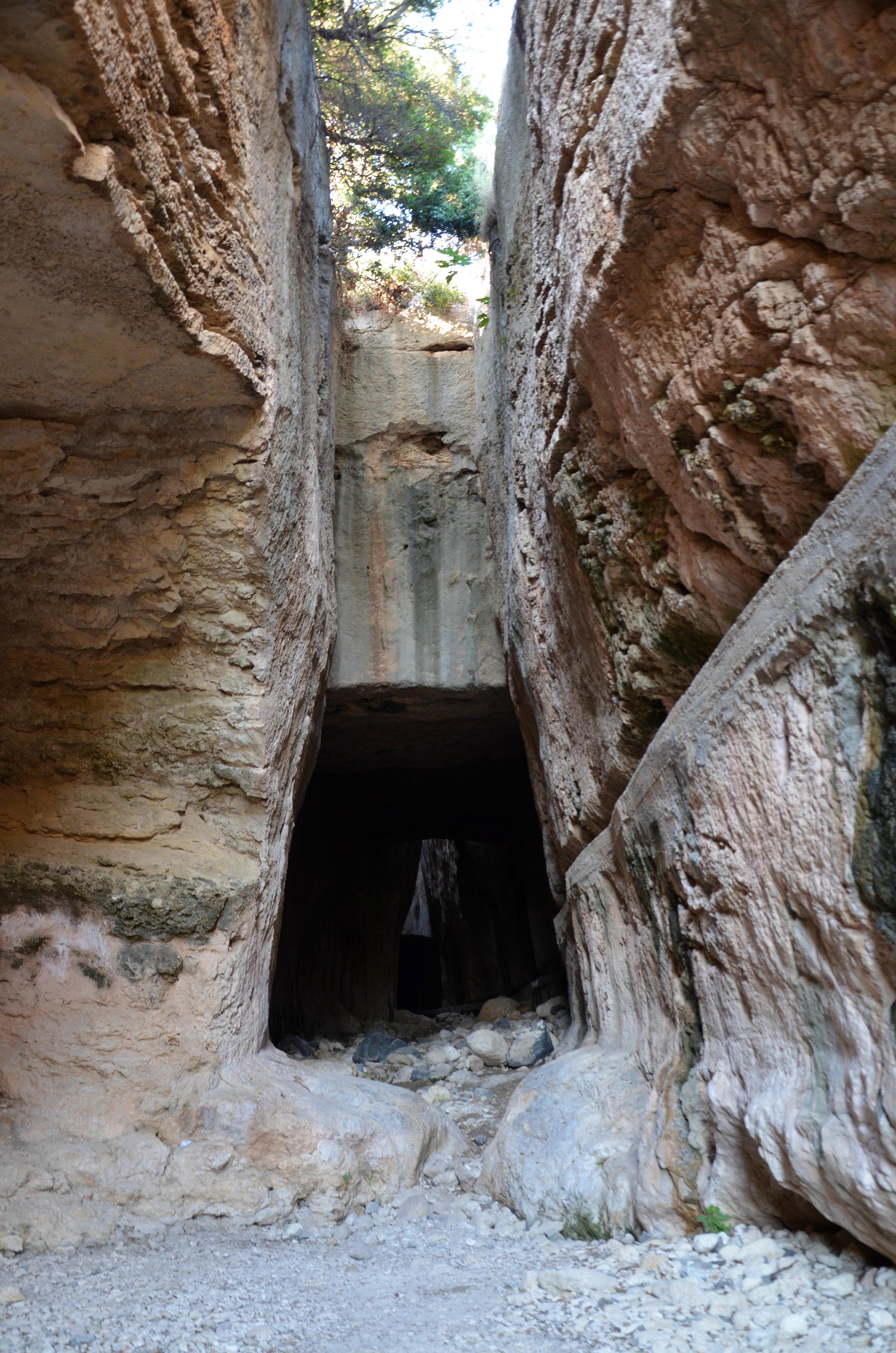 The entrance of the Vespasianus Titus Tunnel, an ancient water tunnel built in the 1st century AD during the reign of the Roman emperor Vespasianus within the boundaries of Seleucia Pieria (Samandag), Turkey